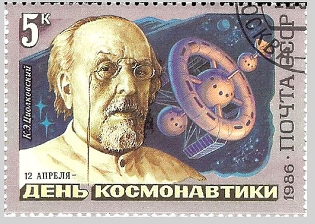 Soviet Union postage stamp, Cosmonautics Day, Konstantin Tsiolkovsky